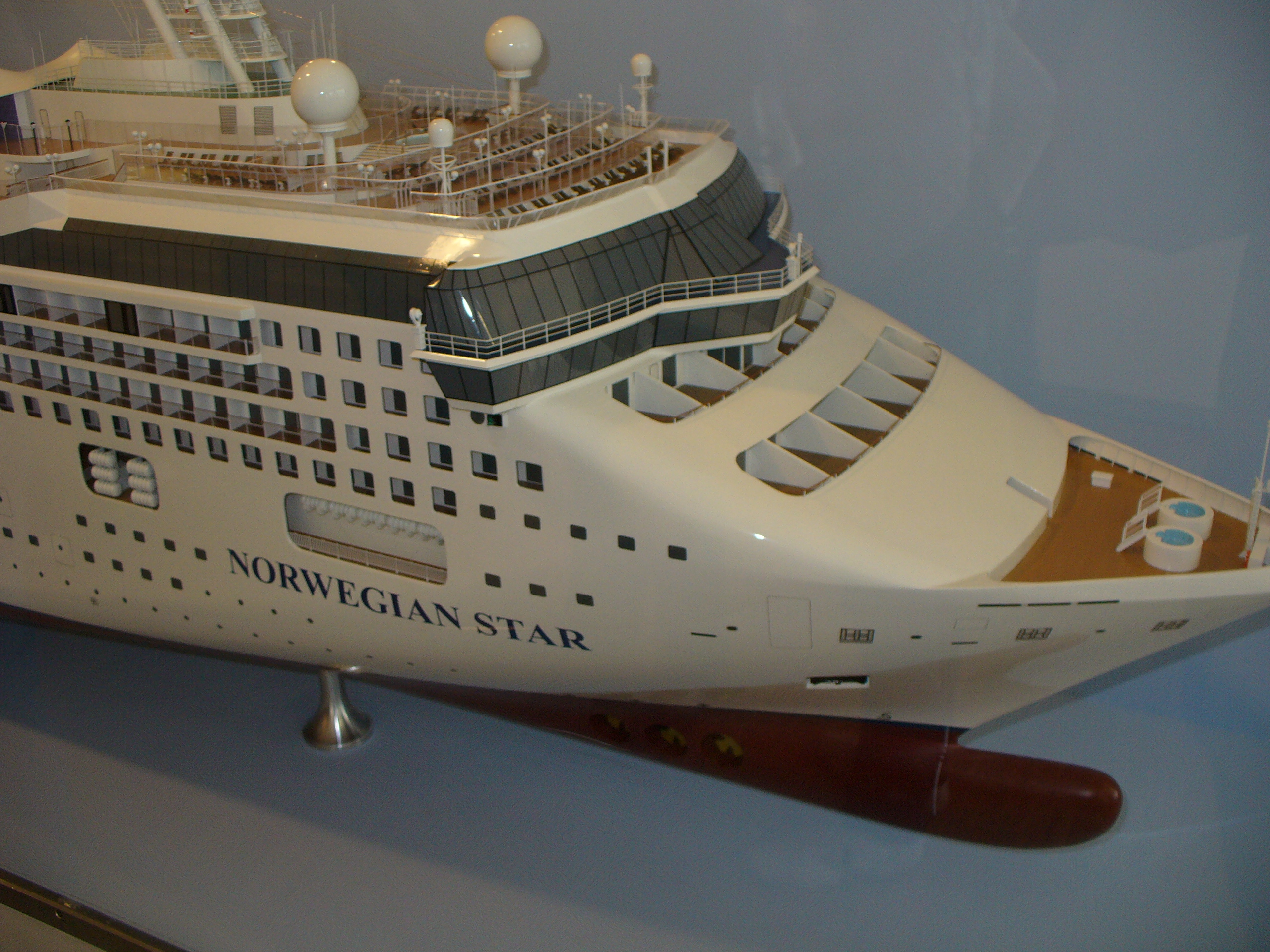 Model of the NORWEGIAN STAR, located at the Papenburger Werftsmuseum.